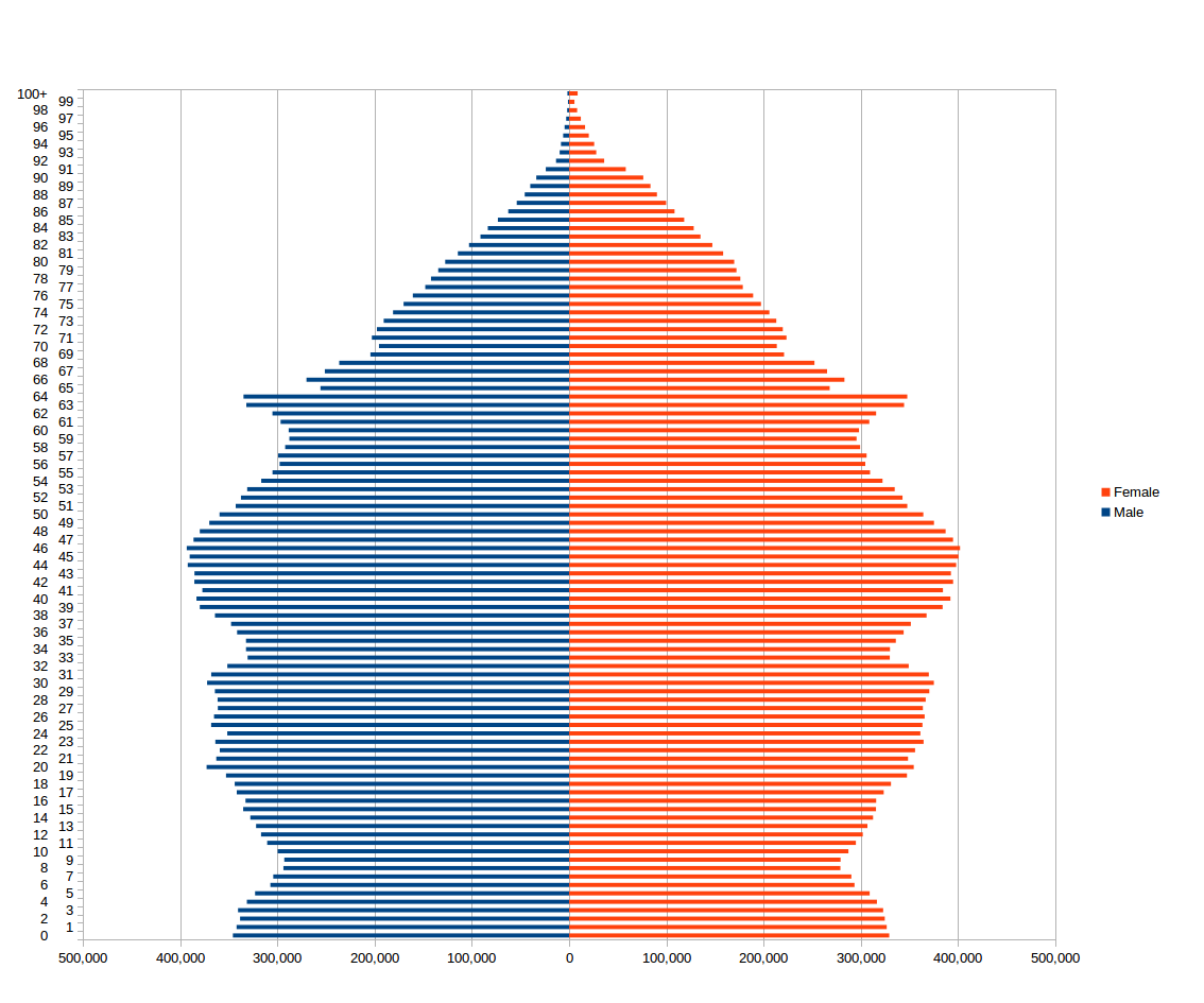 Population pyramid for England as at the 2011 census.